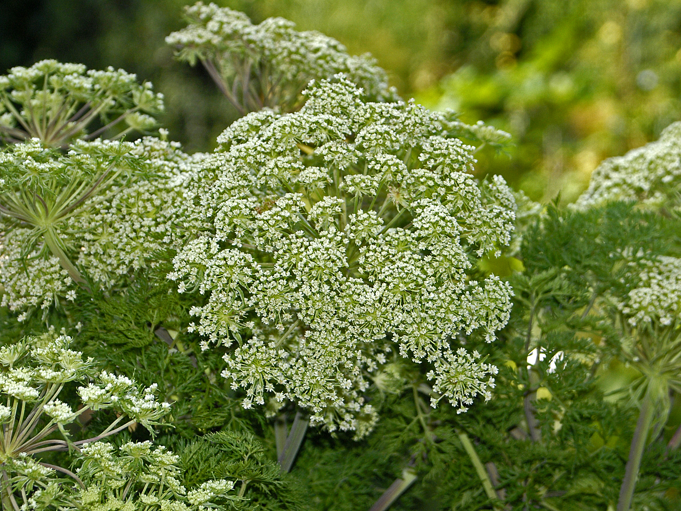 Selinum tenuifolium. Orto Botanico di Brera, Milano